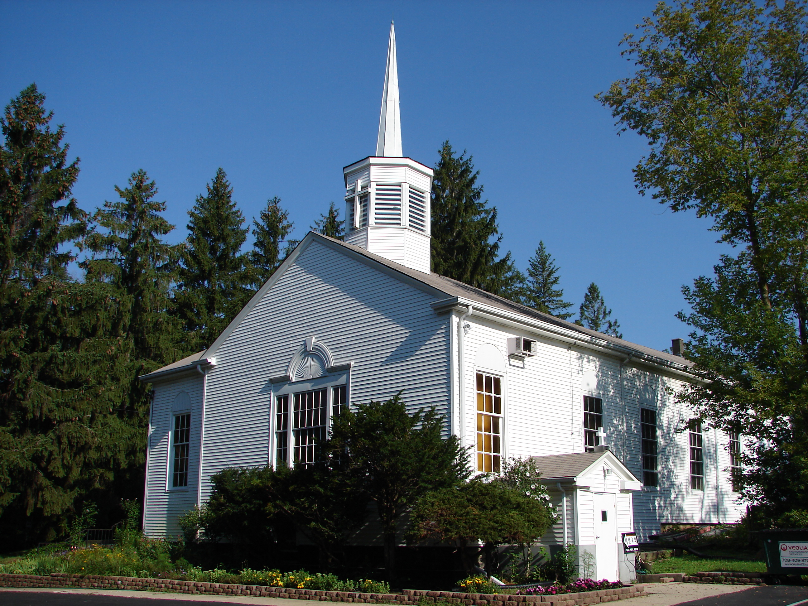 Barrington Center Church in Barrington Hills, Illinois. My own photo taken in August, 2007. I release this to the public domain